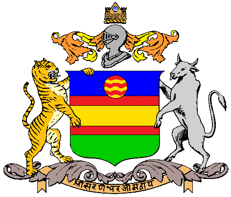 Sirohi State Coat of Arms This work is in the public domain in India because its term of copyright has expired. The Indian Copyright Act applies in India, to works first published in India. According to The Indian Copyright Act, 1957 (Chapter V Section 25), Anonymous works, photographs, cinematographic works, sound recordings, government works, and works of corporate authorship or of international organizations enter the public domain 60 years after the date on which they were first published, counted from the beginning of the following calendar year (ie. as of 2016, works published prior to 1 January 1956 are considered public domain). Posthumous works (other than those above) enter the public domain after 60 years from publication date. Any other kind of work enters the public domain 60 years after the author's death. Text of laws, judicial opinions, and other government reports are free from copyright. Photographs created before 1958 are in the public domain 50 years after creation, as per the Copyright Act 1911. This file may not be in the public domain outside India. The creator and year of publication are essential information and must be provided. See Wikipedia:Public domain and Wikipedia:Copyrights for more details. This image shows a flag, a coat of arms, a seal or some other official insignia. The use of such symbols is restricted in many countries. These restrictions are independent of the copyright status.